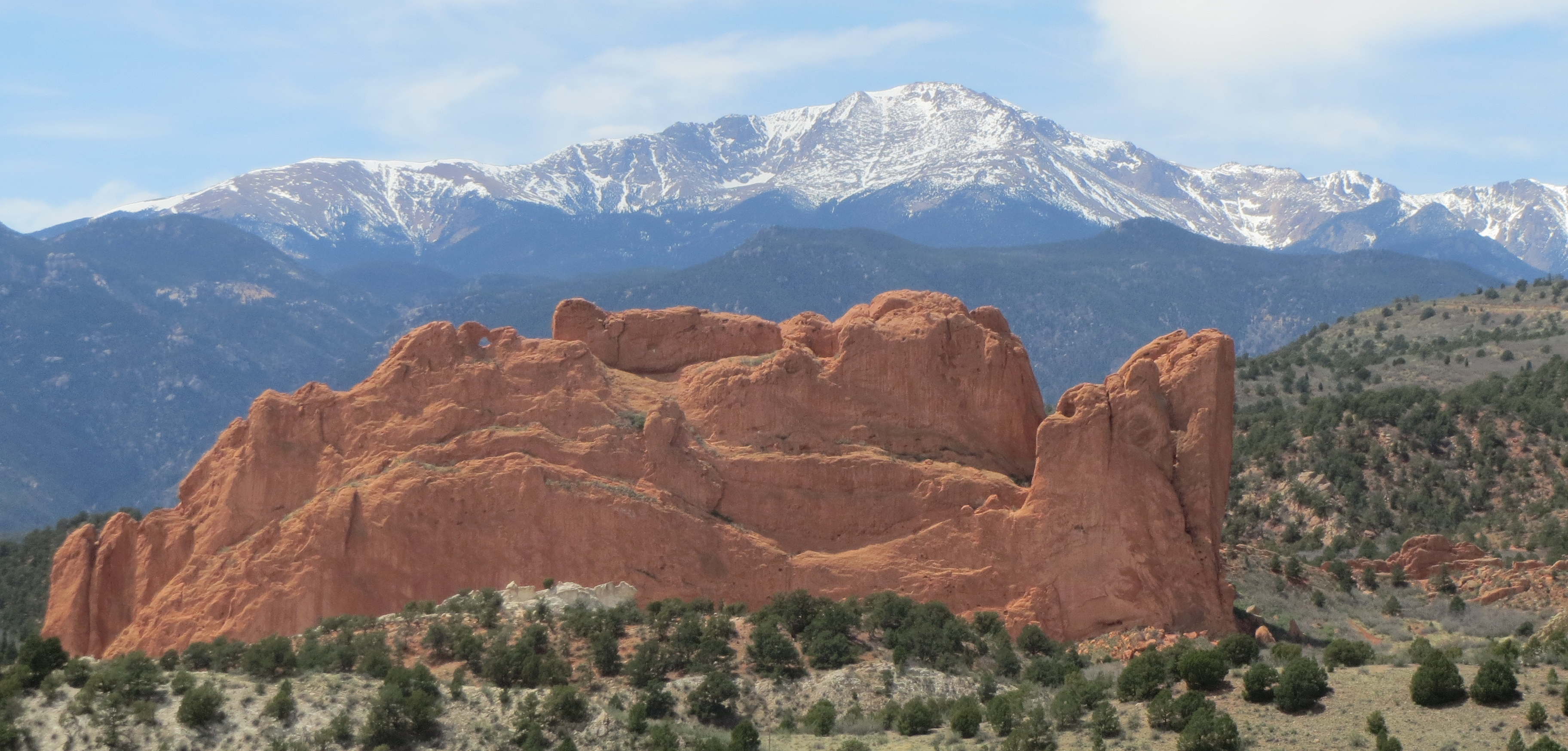 Garden of the Gods, with Pikes Peak in the background